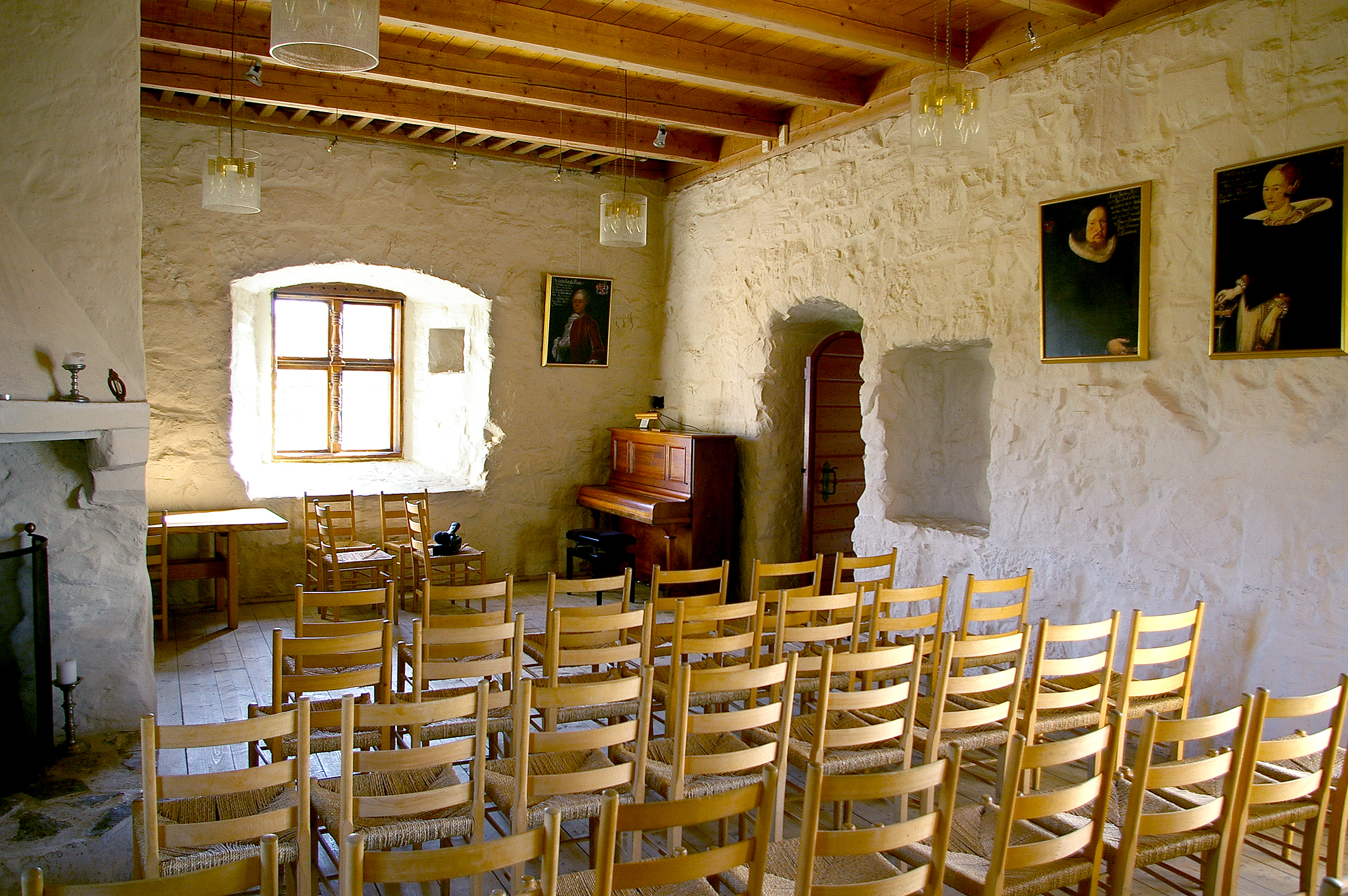 One of the oldest Stone buildings in Norway, still remaining.